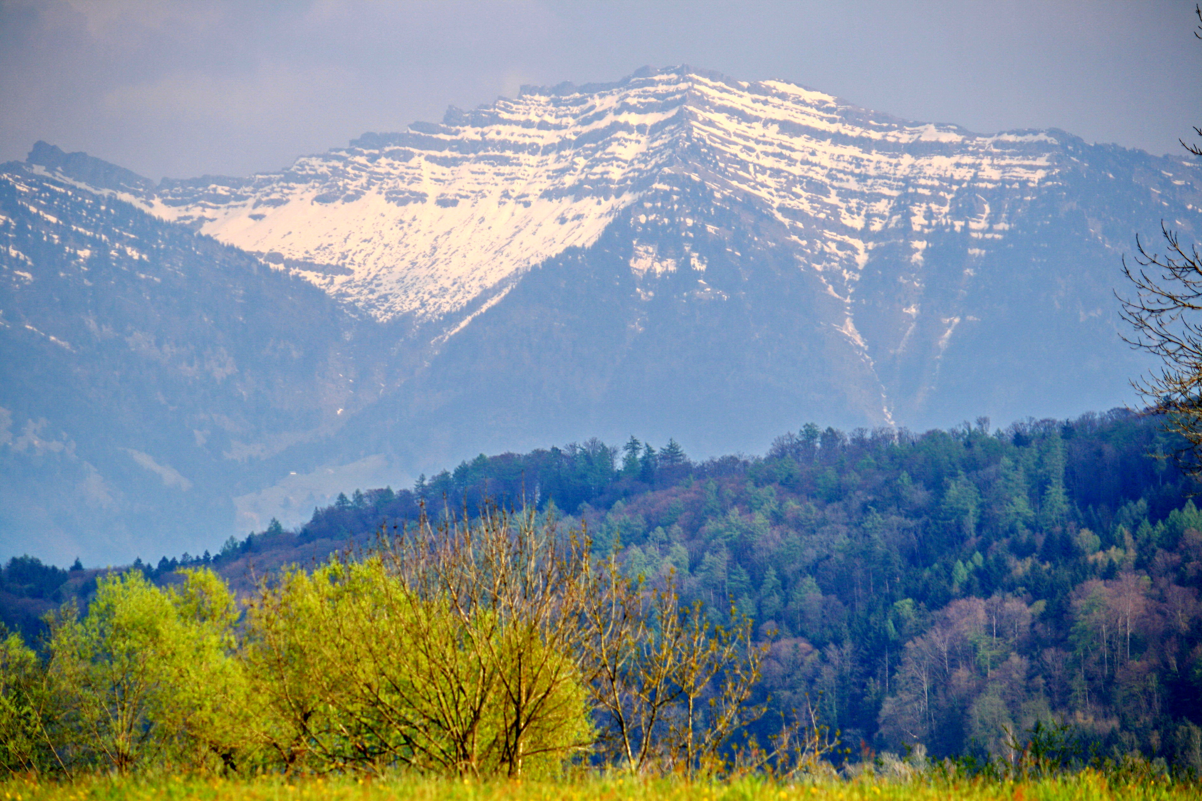 Bollingen on Obersee (upper Lake Zürich) shore, Federispitz in the background.